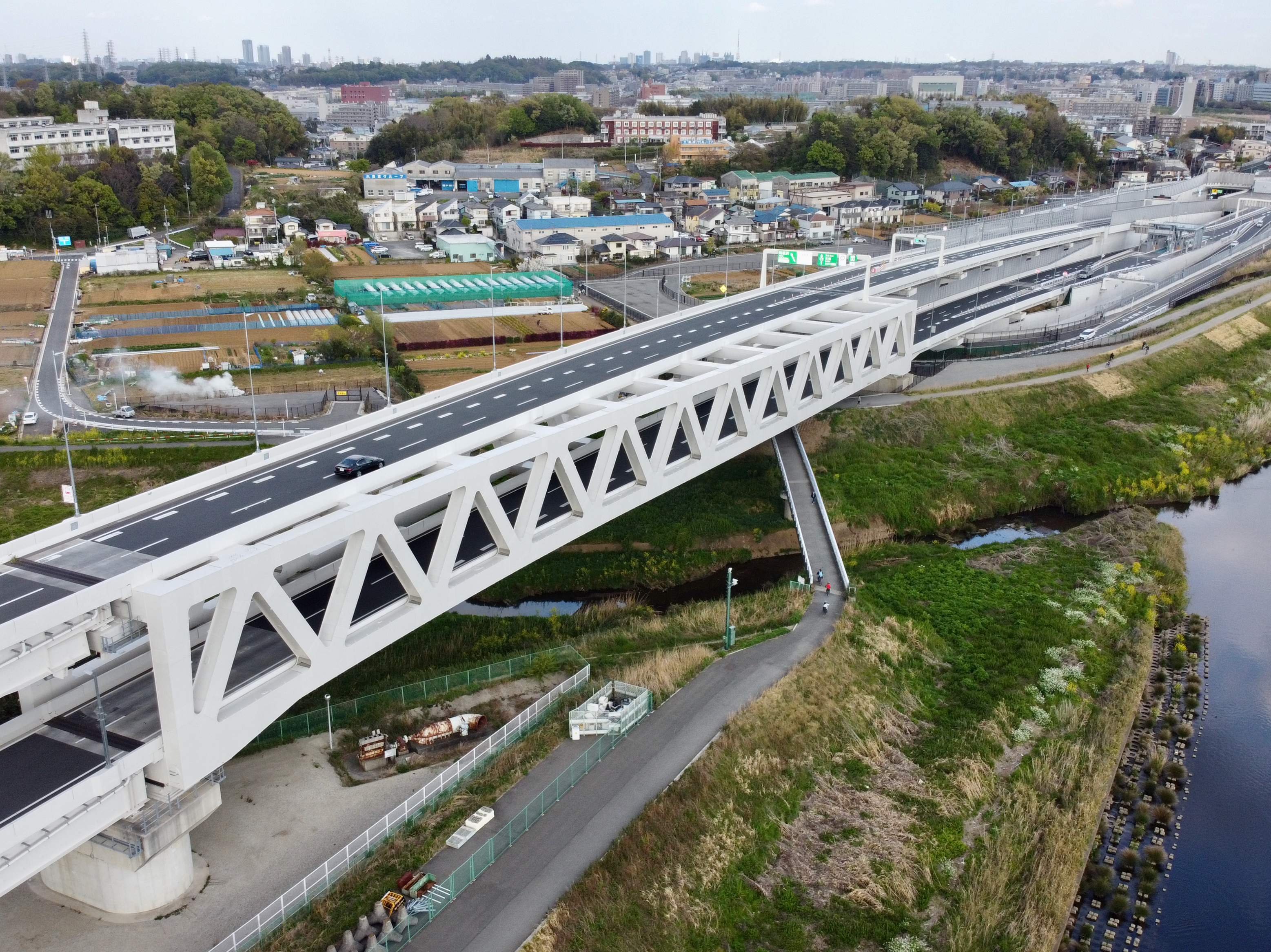 Aerial view of Okuma-river truss bridge in Yokohama, Japan